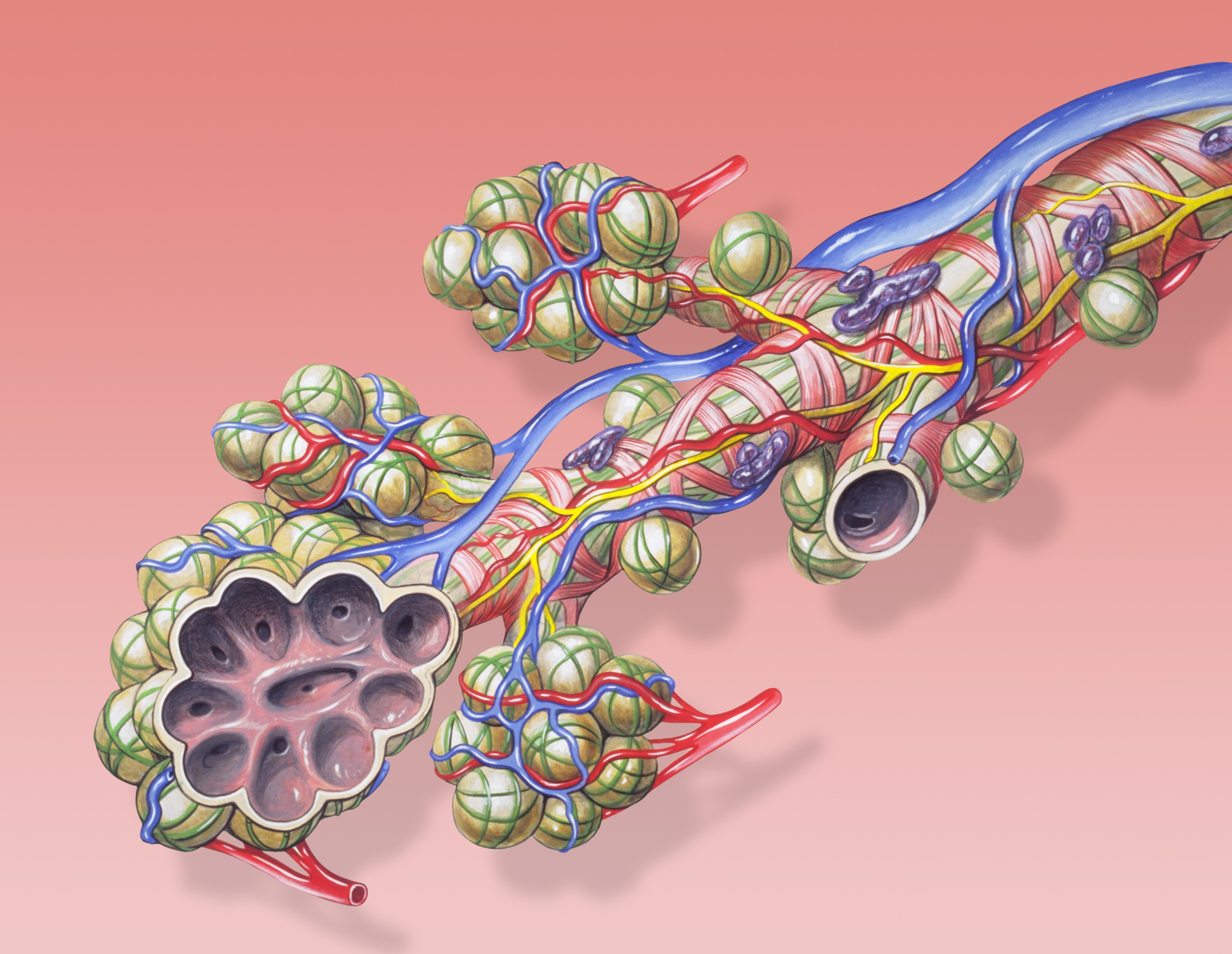 Bronchial anatomy detail of alveoli and lung circulation.